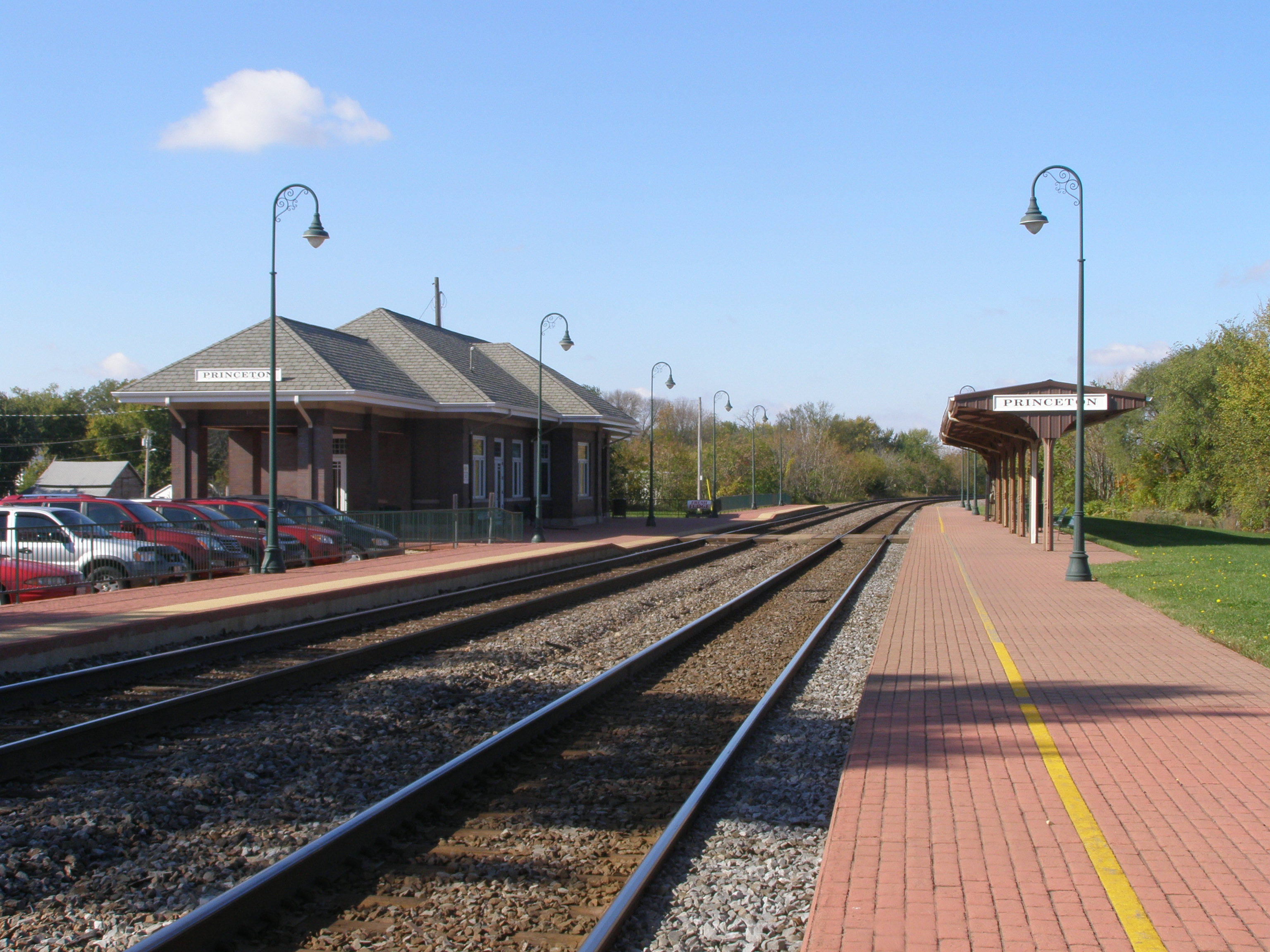 Tracks from Chicago at the Princeton Amtrak station in Princeton, Illinois.